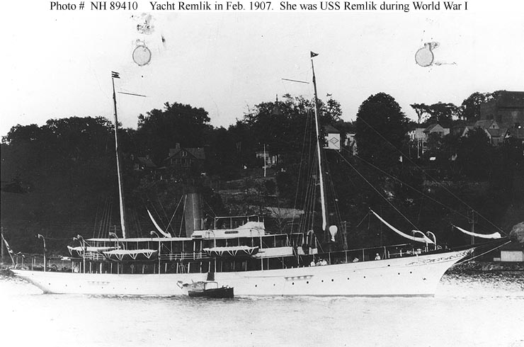 Civilian yacht SS Remlik, which later served as the United States Navy patrol vessel USS Remlik (SP-157) during World War I